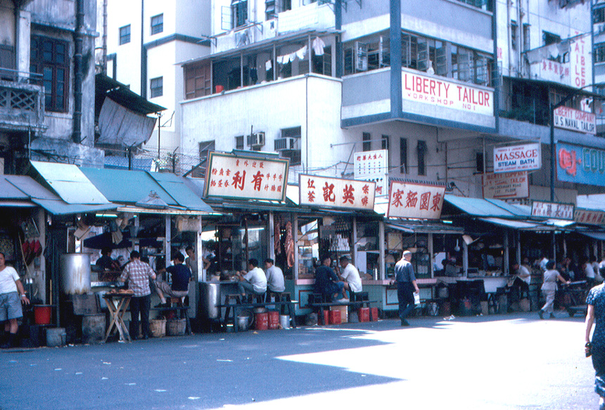 Noodle stands were the "poor man's restaurant" in Hong Kong - and also in other Asian cities. These noodle stands are on O'Brien Road in Victoria. The geotagged location is reasonably close.